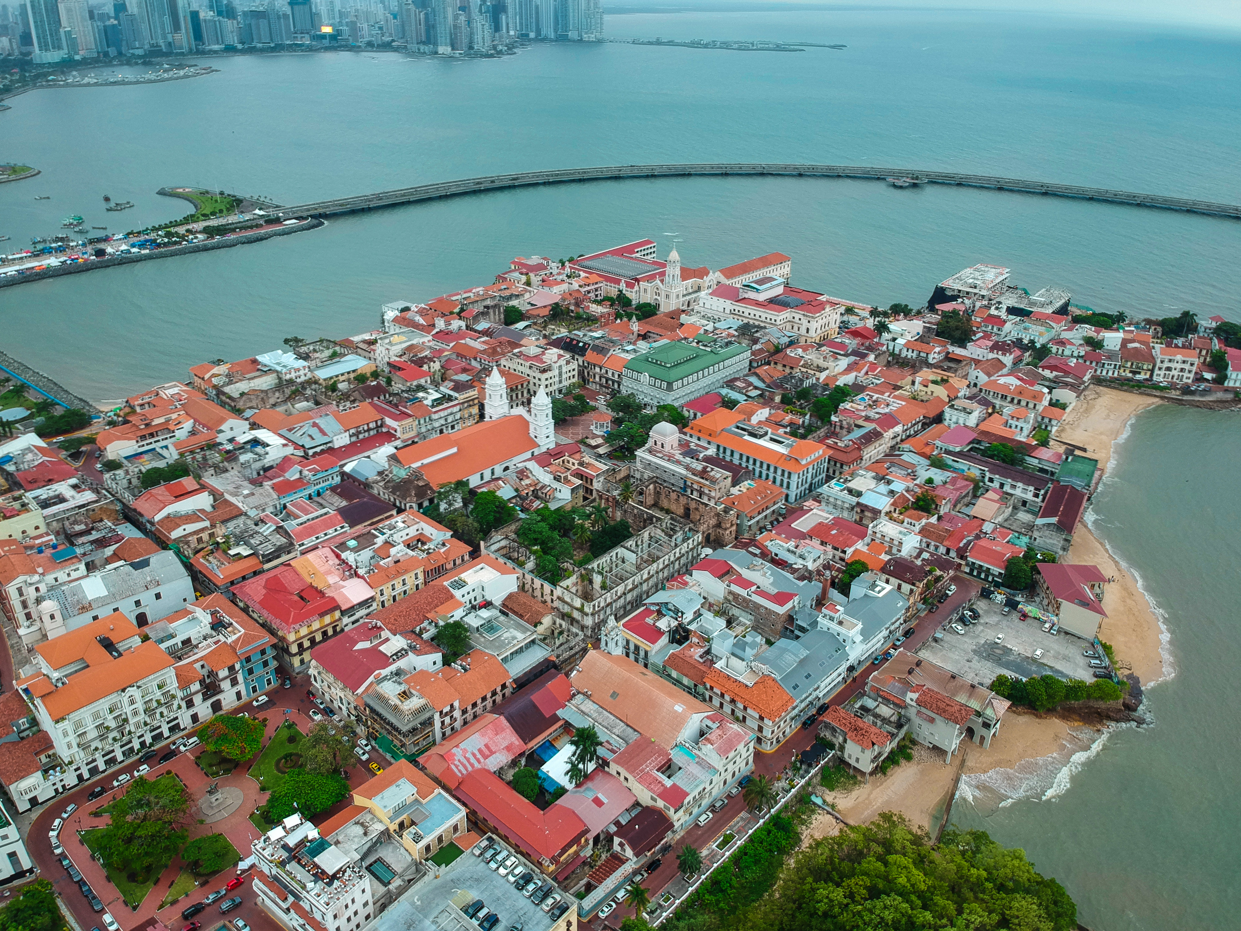 Casco Antiguo aerial view